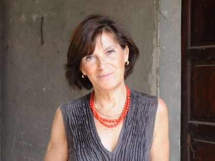 Gabriella Caramore, Italian essayist and radio writer